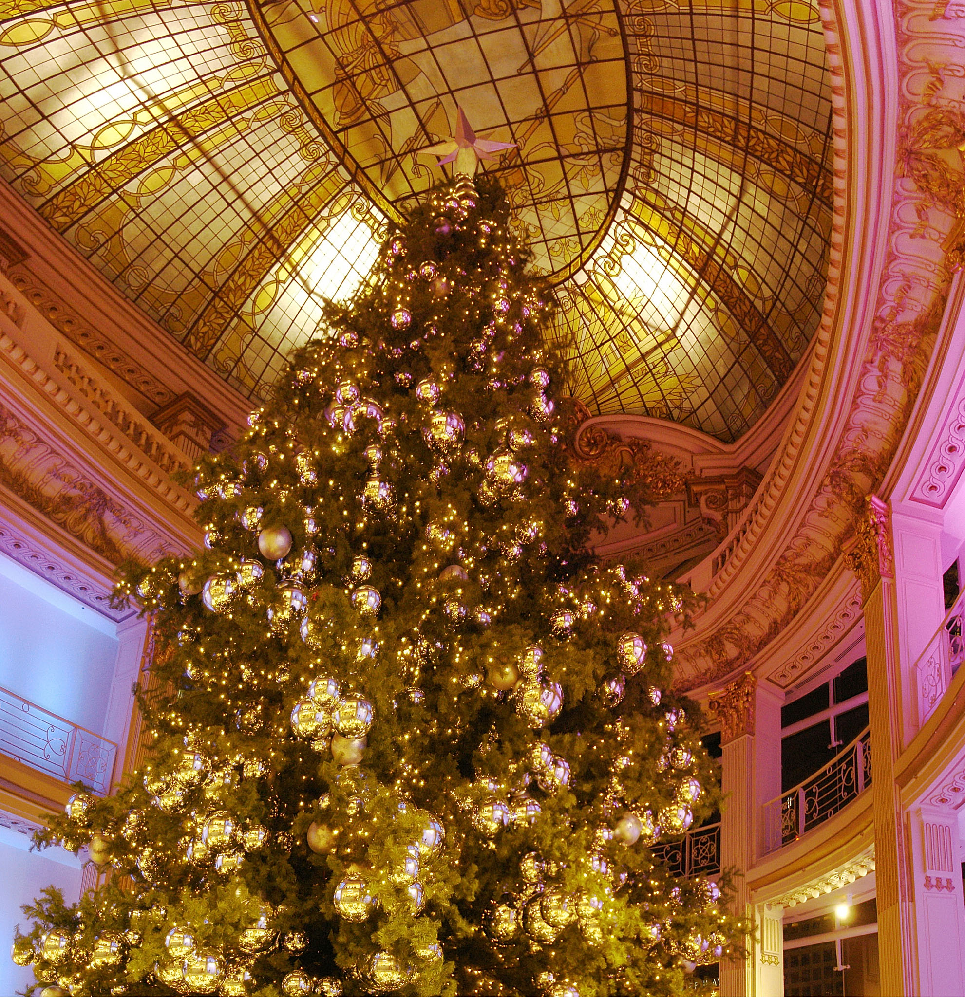 Inside the Neiman Marcus Union Square store — in downtown San Francisco, California. With the former 'City of Paris' department store's restored stained glass dome.